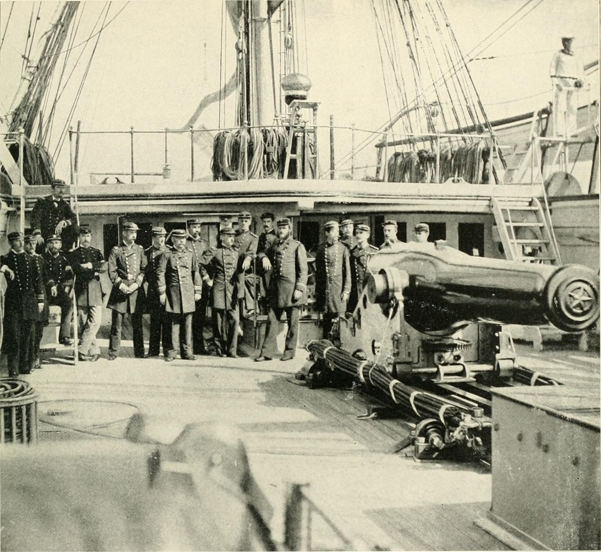 Title: The photographic history of the Civil War : thousands of scenes photographed 1861-65, with text by many special authorities Year: 1911 (1910s) Authors: Miller, Francis Trevelyan, 1877-1959 Lanier, Robert S. (Robert Sampson), 1880- Subjects: United States -- History Civil War, 1861-1865 Pictorial works United States -- History Civil War, 1861-1865 Publisher: New York : Review of Reviews Co. Text Appearing Before Image: ' Text Appearing After Image: COPtRIGhT, ijm, RFvIEW OF REVIEWS CO. THE GUN THAT SUNK THE ALABAMA—ON BOARD U. S. S. KEARSARGE On the main dock, showing one of the two 11-inch pivot-guns that were liandled with superb skill in tliefamous fight with the Alabama. The engagement was in reality a contest in skill between Americanand British gunners, since the crew of the Alabama was composed almost entirely of Britisli sailors.AYord was passed to the men in the Kearsarge to let every shot tell, and there followed an exhibition ofthat magnificent American gunnery that had c-haracterized the War of 1812. The Kearsarge fired only173 missiles, almost all of which took effect. The Alabama fired 370 missiles, of which but 28 struckher antagonist. An 11-inch shell from the pivot-gun of the Kearsarge entered the Alabamas 8-inchgun-))ort, mowing down most of the gun crew. It was quickly followed by another shell from the samegun, and then by another, all three striking in the same place. Although the gunnery aboard tlie .Vla